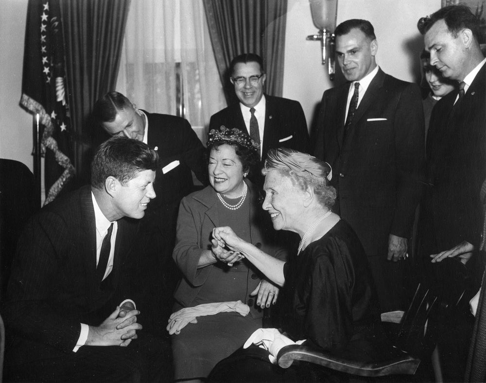 President John F. Kennedy meets with Helen Keller in the Oval Office, White House, Washington, D.C. (L-R) Seated: President Kennedy; personal secretary to Helen Keller Evelyn Seide; Helen Keller. (L-R) Also present at this meeting were Vice President of Lions Clubs International Curtis D. Lovill; Governor of District 22-2 of Lions Clubs International W.J. Smith; and about ten other representatives from Lions Clubs International. Five of the representatives are pictured here.